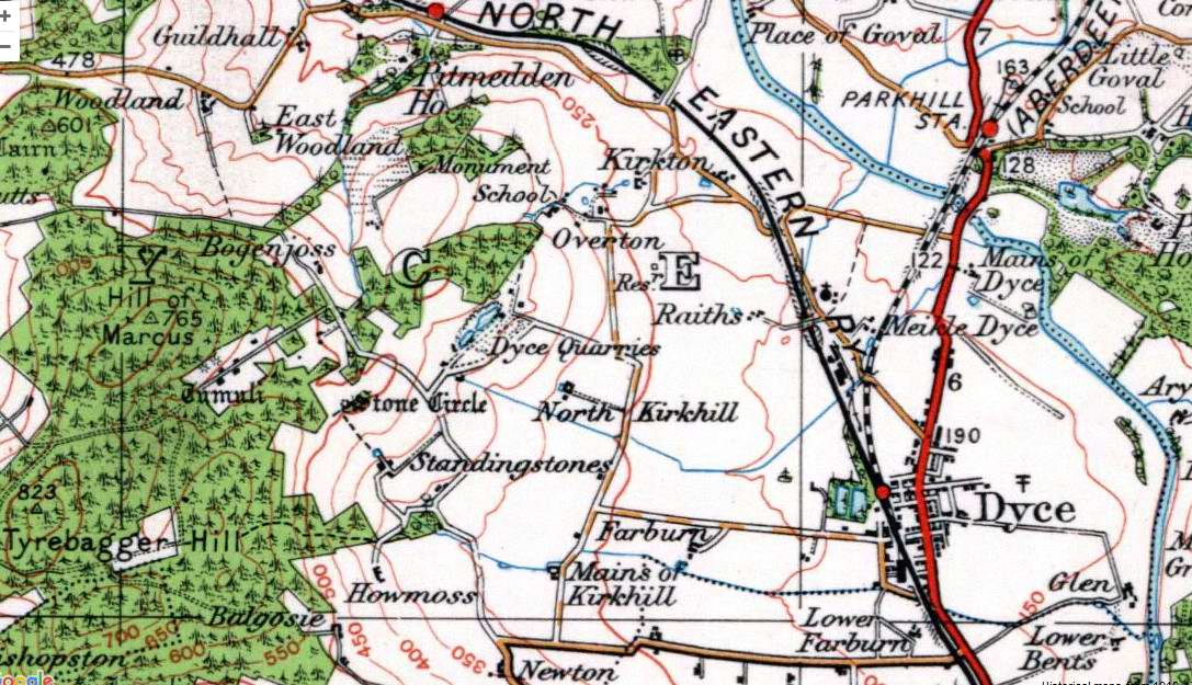 Historical map of area around Dyce Quarries, Aberdeenshire